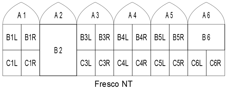 scheme of frescos of New Testament in Collegiata church in San Gimignano